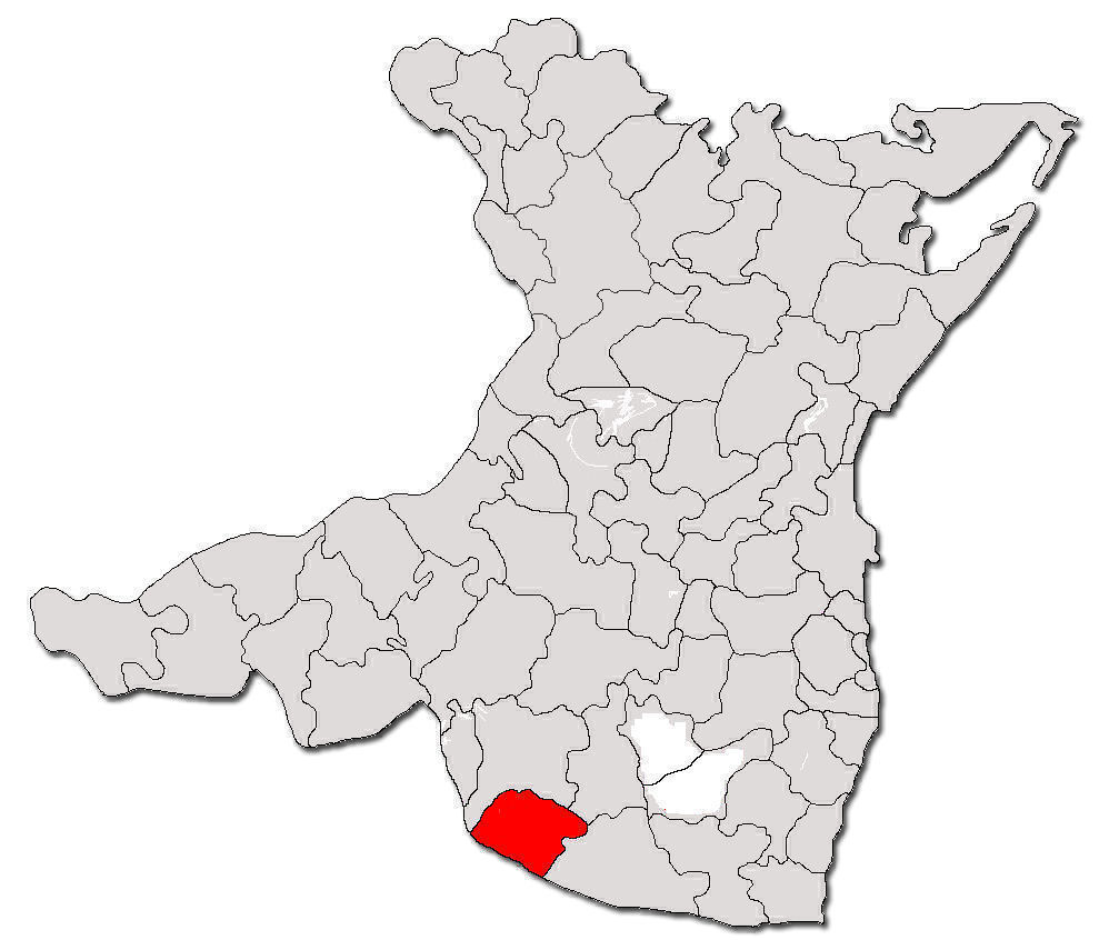 Contour map of commune Cerchezu